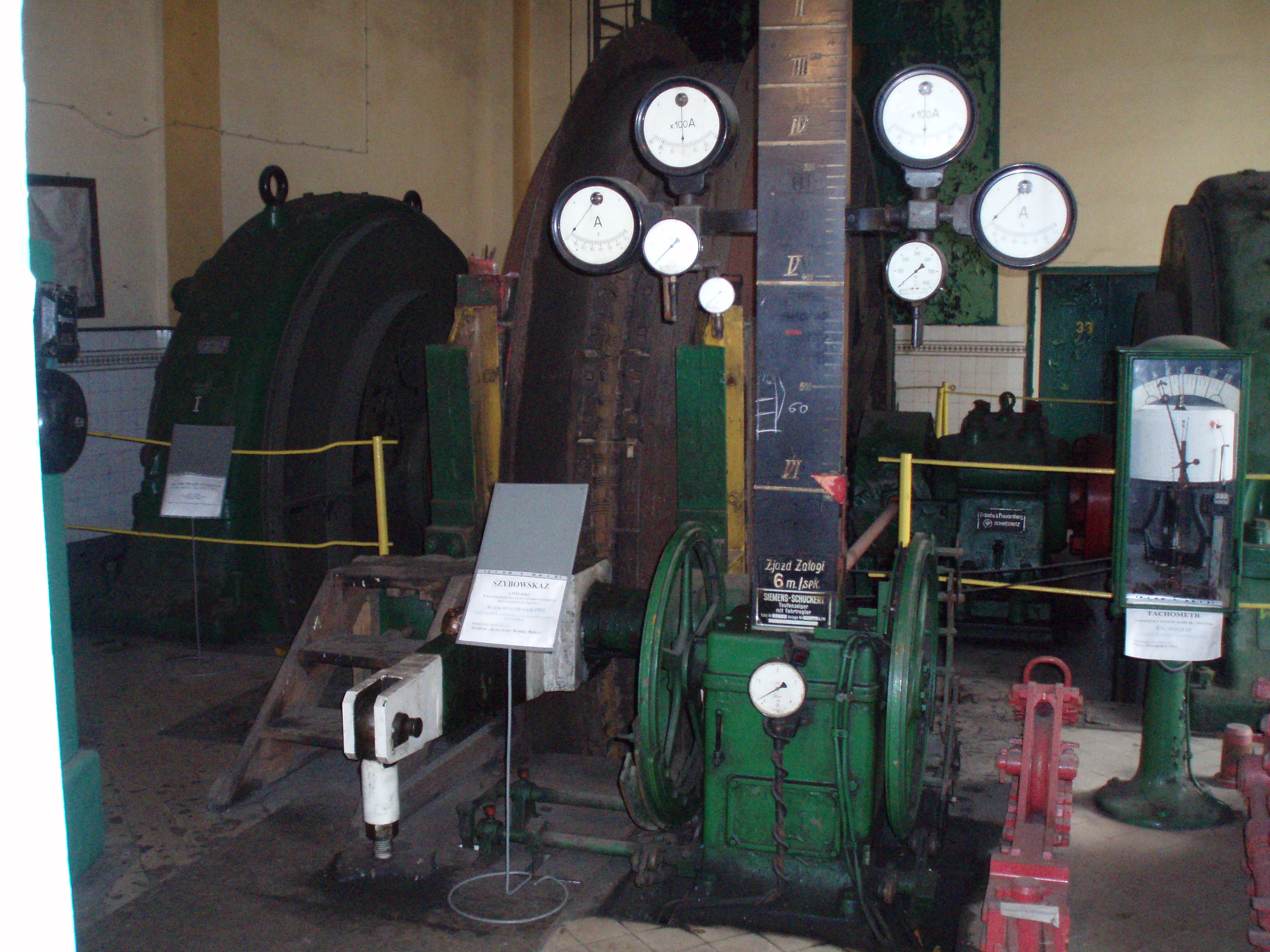 Koepe (friction type)) winding engine, closed coal mine Thorez, Wałbrzych, Poland.